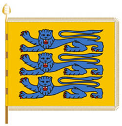 The flag of the Estonian Defence Forces